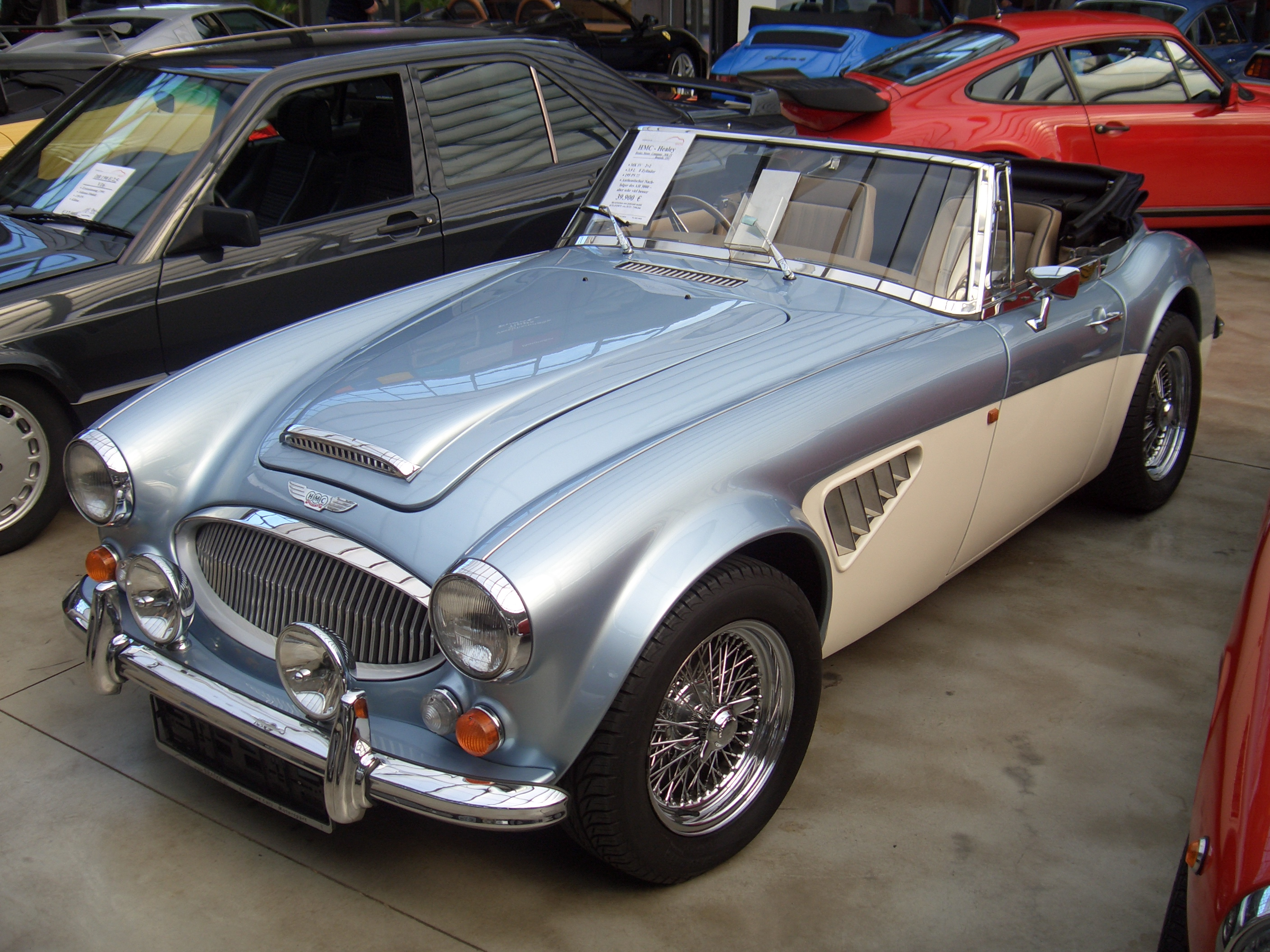 HMC Healey Mk.IV 2+2 (1997), seen at MEILENWERK, Düsseldorf, Germany